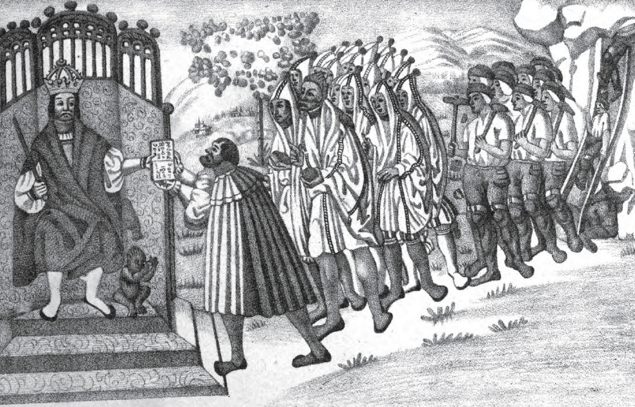 Wenceslaus II of Bohemia gives a regulation for governing the mines of Kutná Hora (1280?).